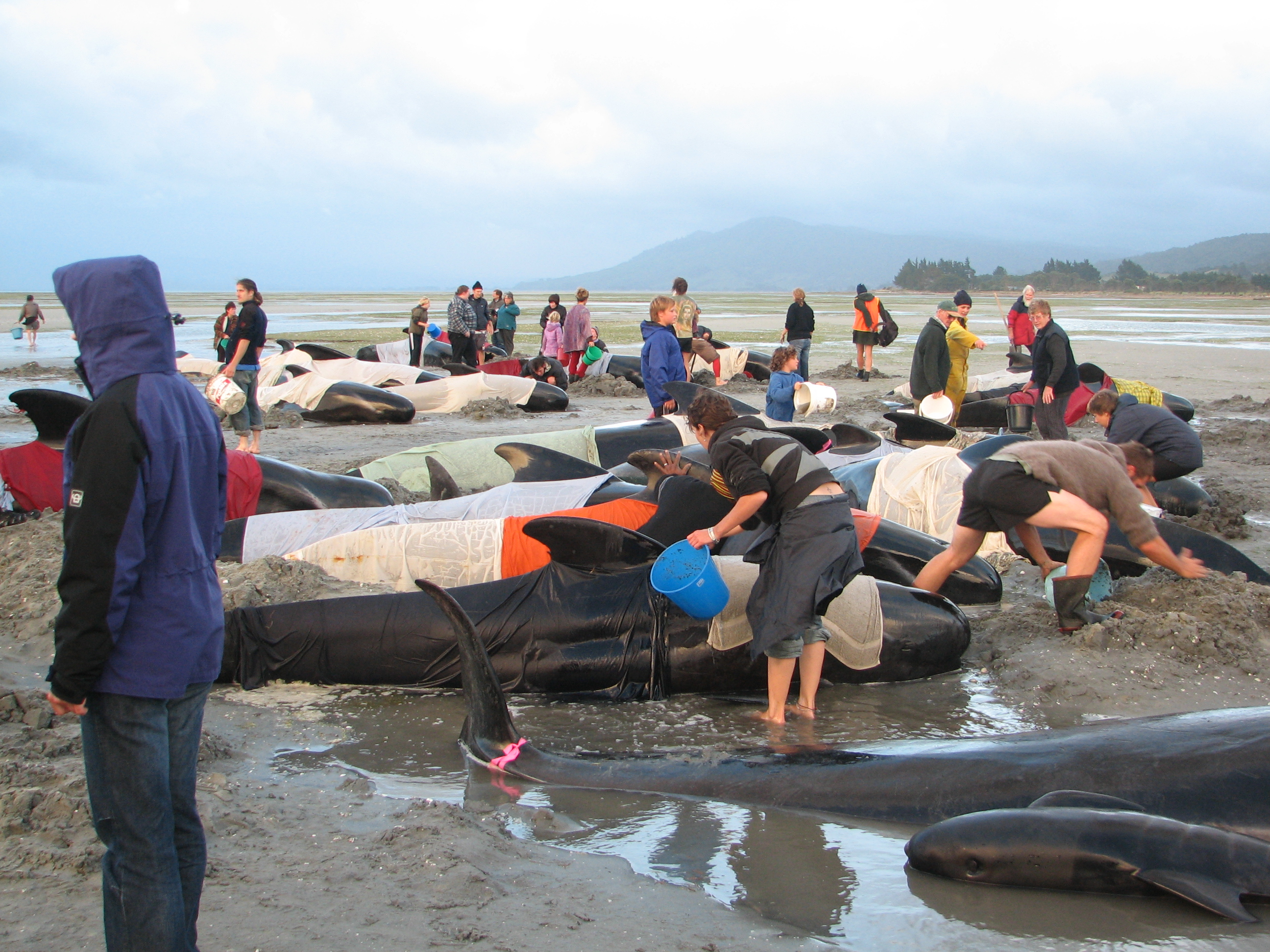 I took this picture on December 20, 2005. Farewell Split, South Island, New Zealand. Ilan Adler.